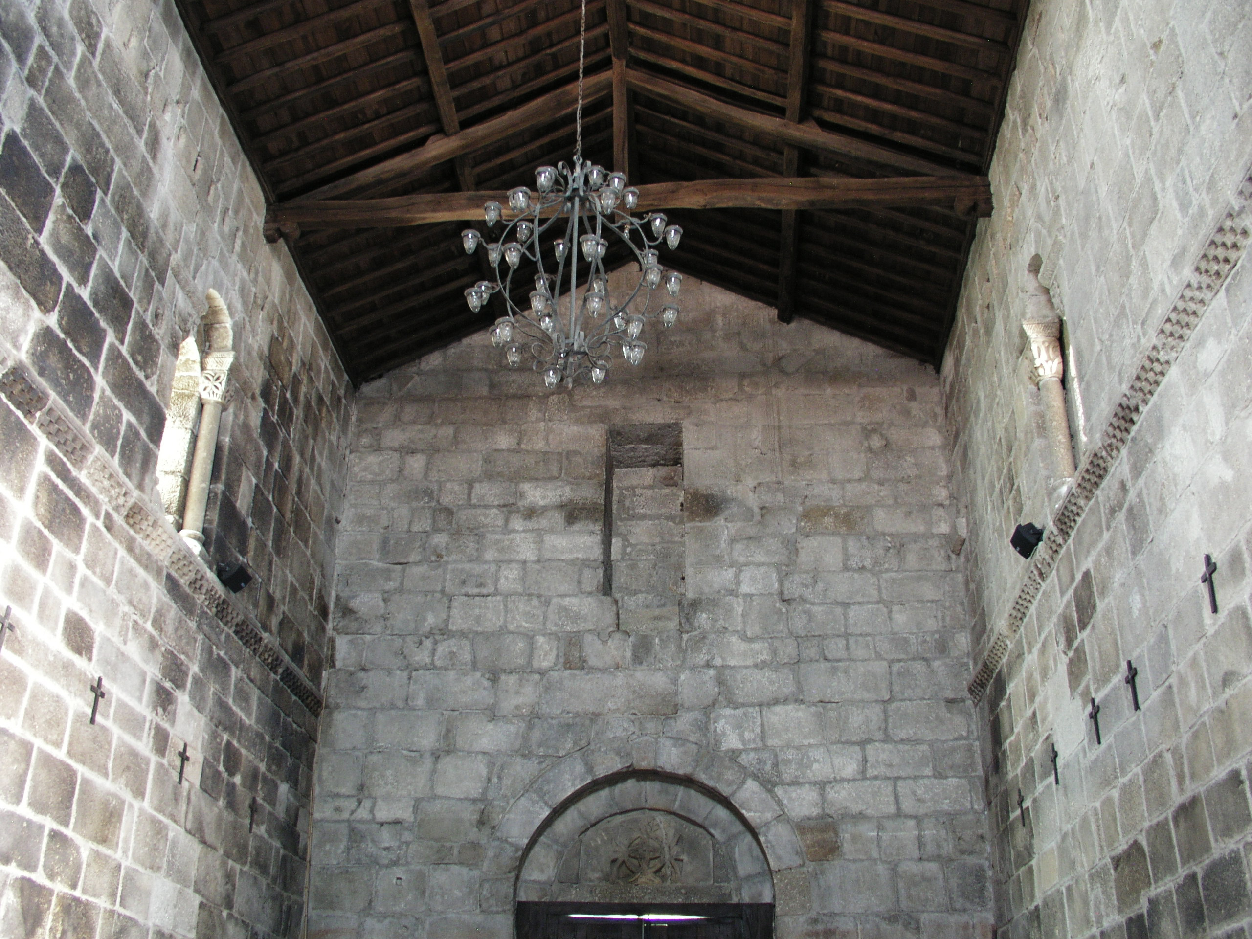 Romanic church of Bravães, Ponte de Barca, Portugal